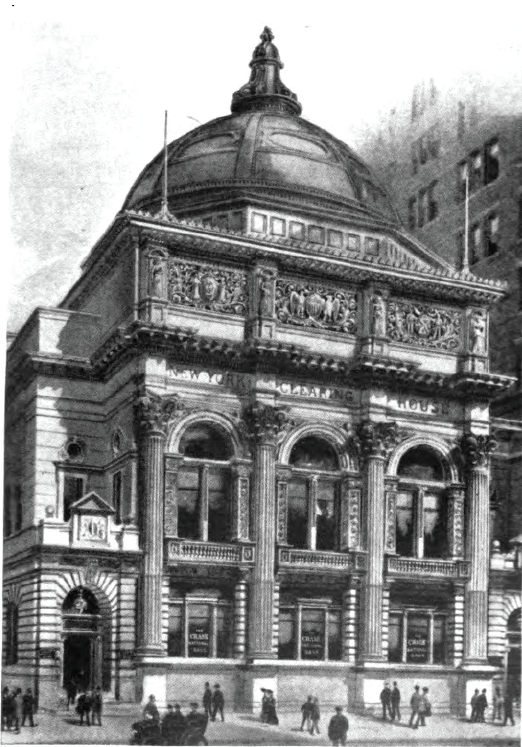 Picture of the New York Clearing House